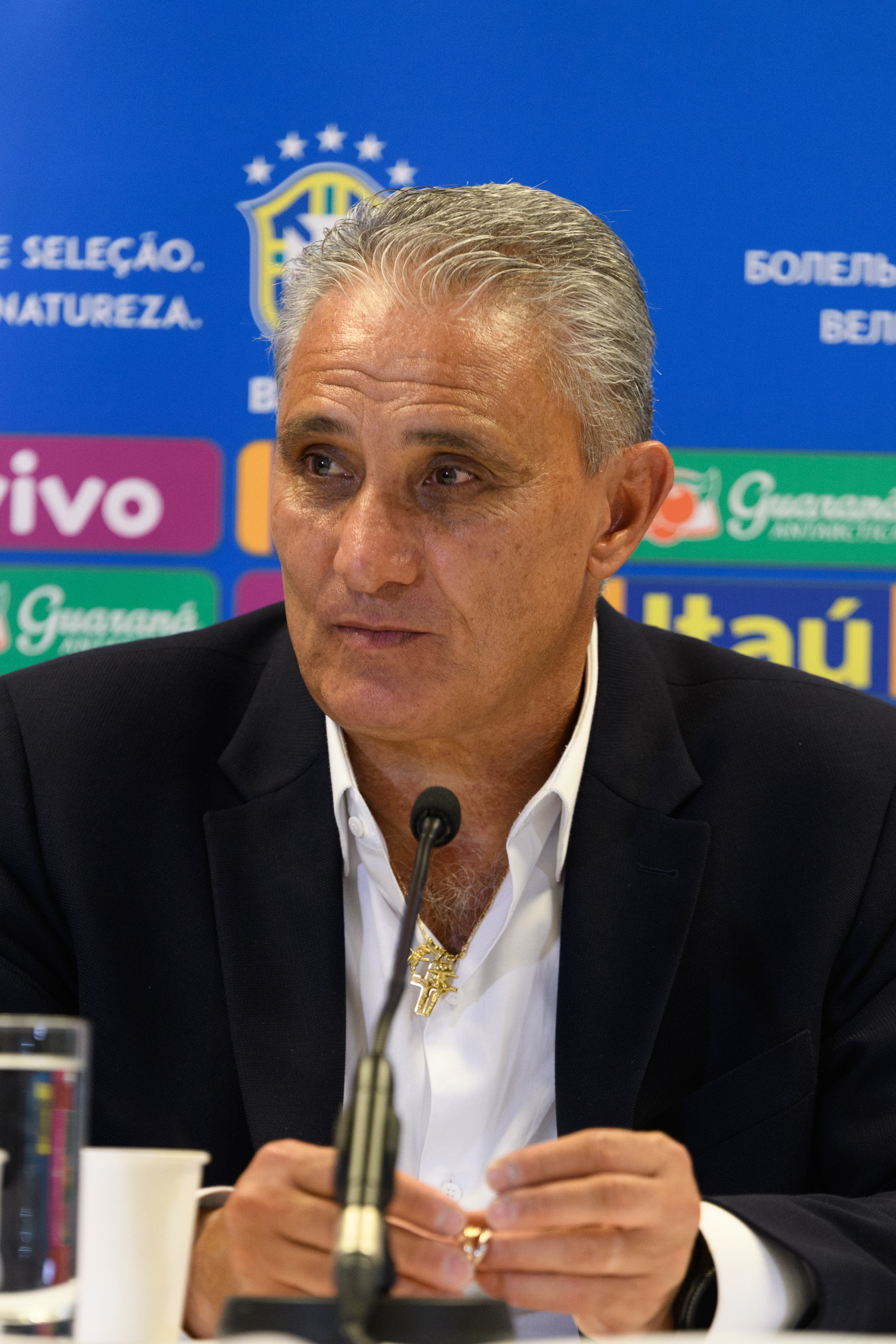 FIFA Friendly Match Austria vs. Brazil 2018/06/10 in Vienna/Ernst-Happel-Stadium. Picture shows Tite